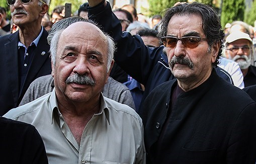 Davood Ganje'i